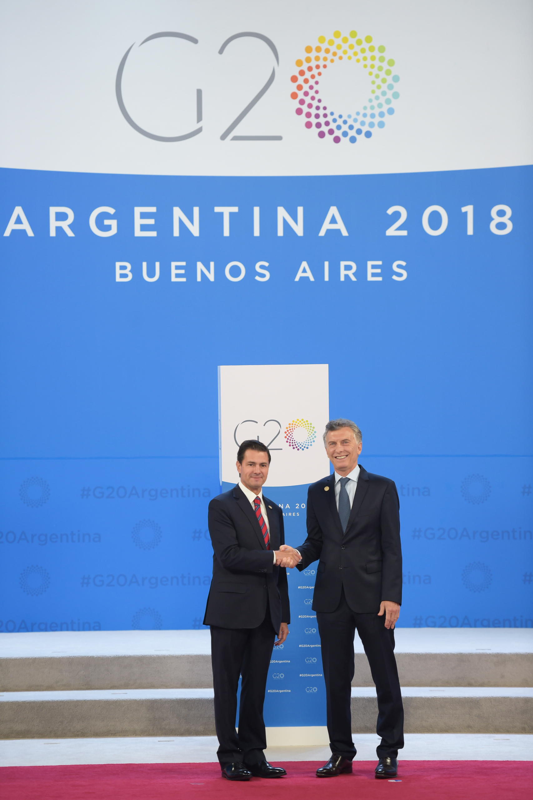 President Enrique Peña Nieto participated in the G20 Leaders Summit, which took place in Buenos Aires, Argentina, during which he signed the T-MEC in the company of the President of the United States, Donald Trump, and the Prime Minister of Canada, Justin Trudeau.